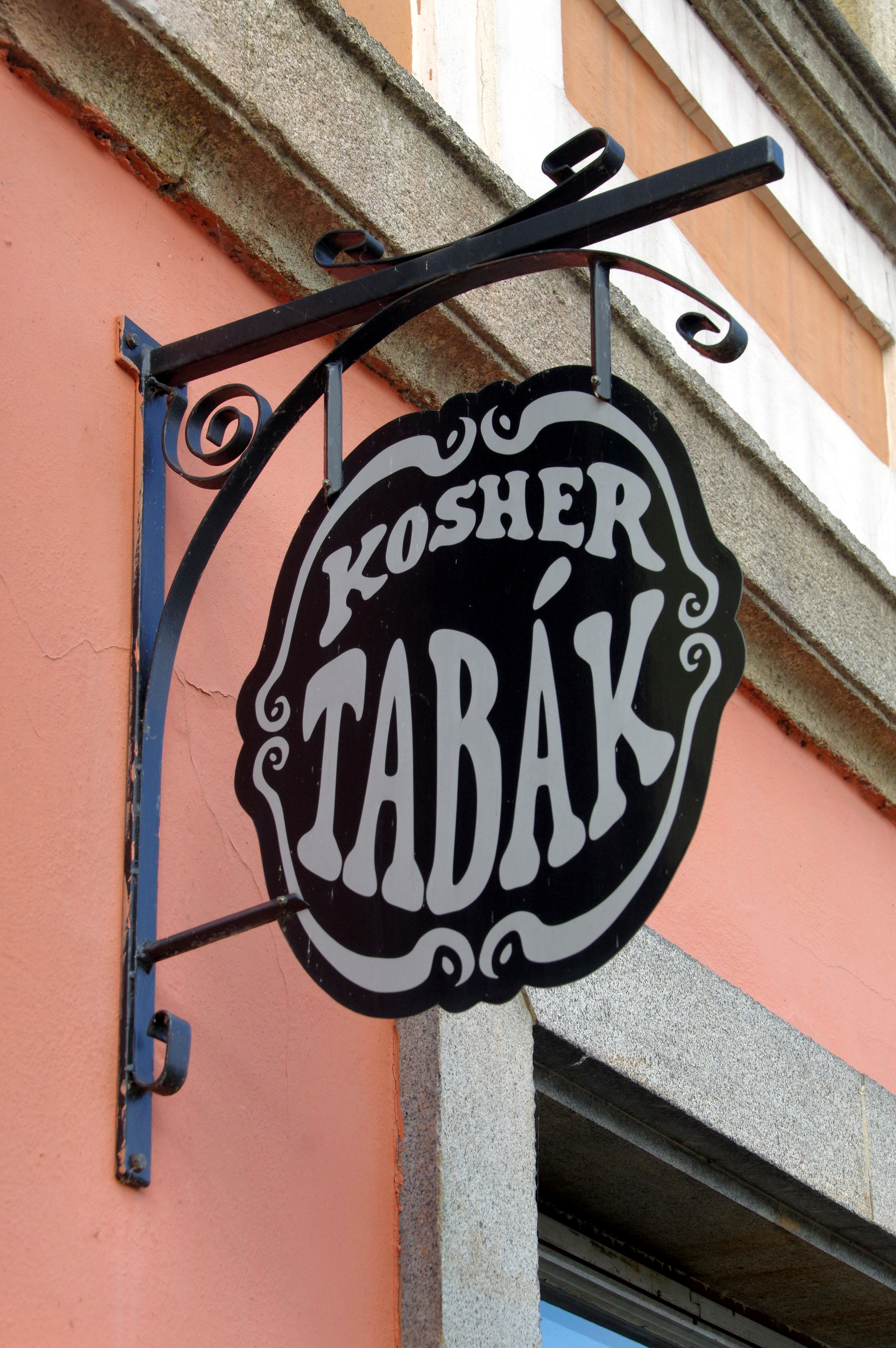 30.8.16 Cheb